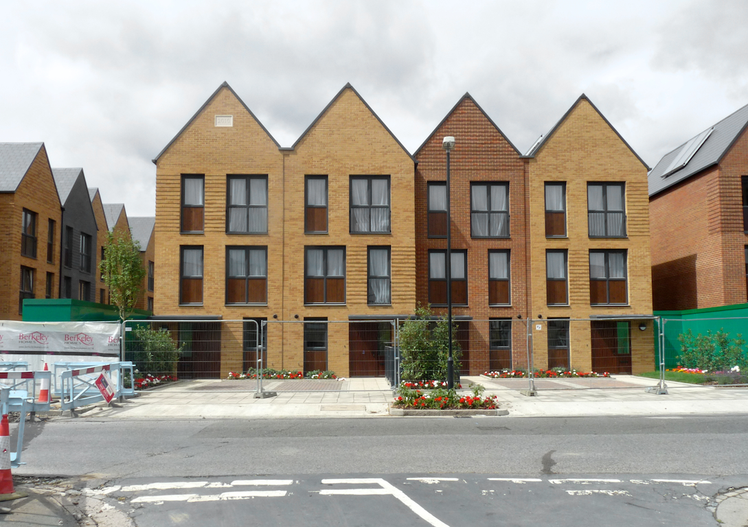 The first completed units of Phase 1, Eltham Green.